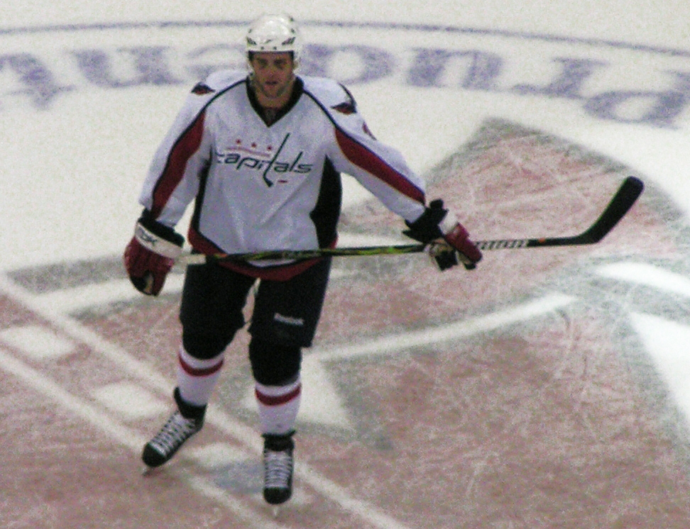 Tom Poti plays with Capitals ant New Jersey